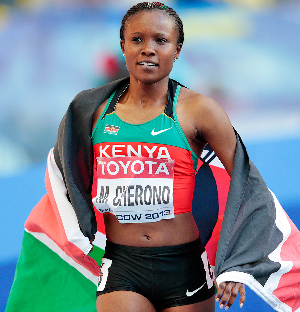 Mercy Cherono on 14th IAAF World Championships in Athletics